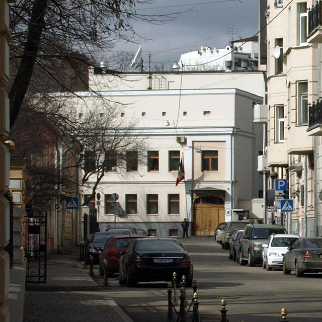 Former embassy building of Mexico in Moscow